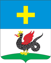 Kashira (Moscow oblast), coat of arms (1998)